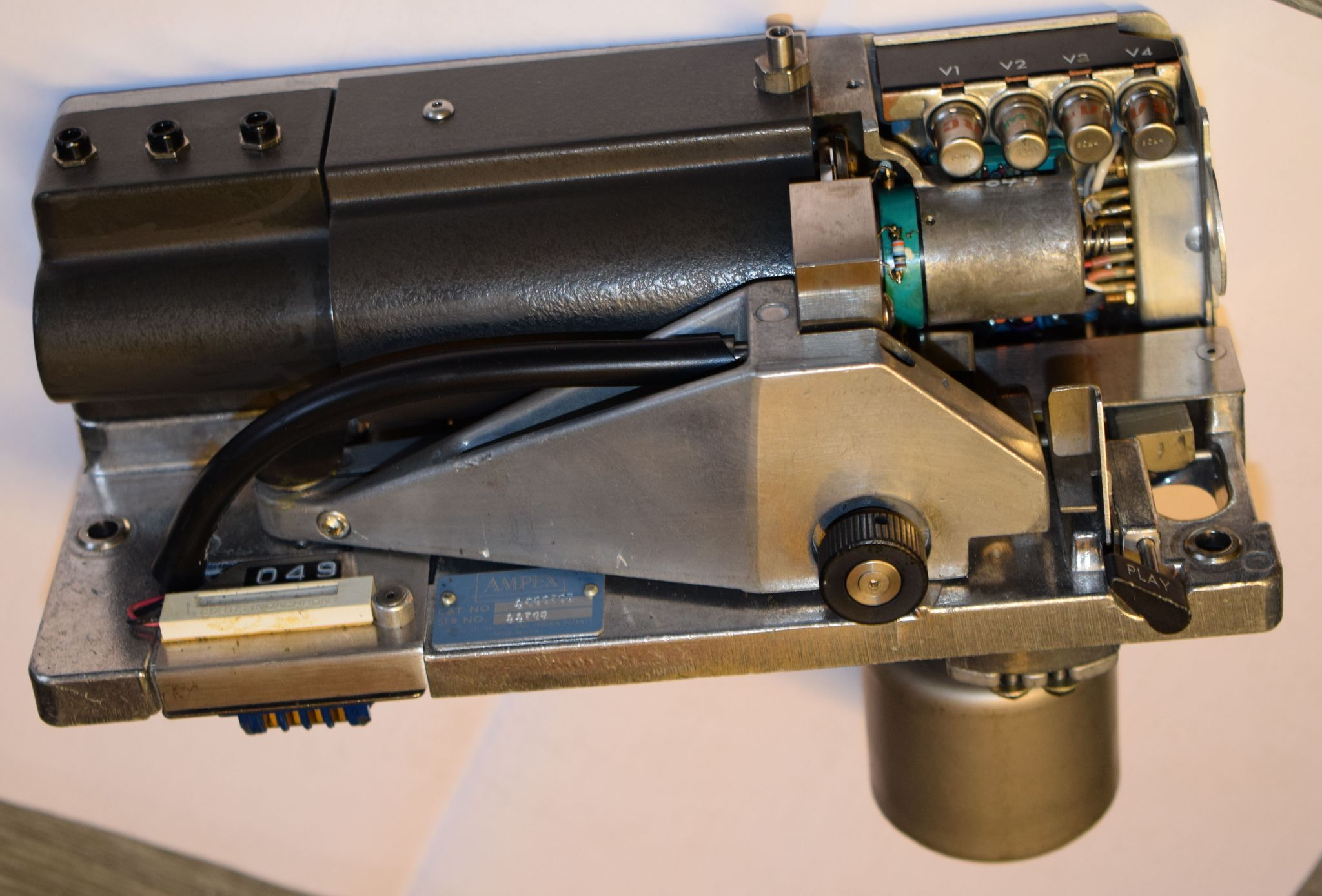 Head unit for Ampex VR-2000